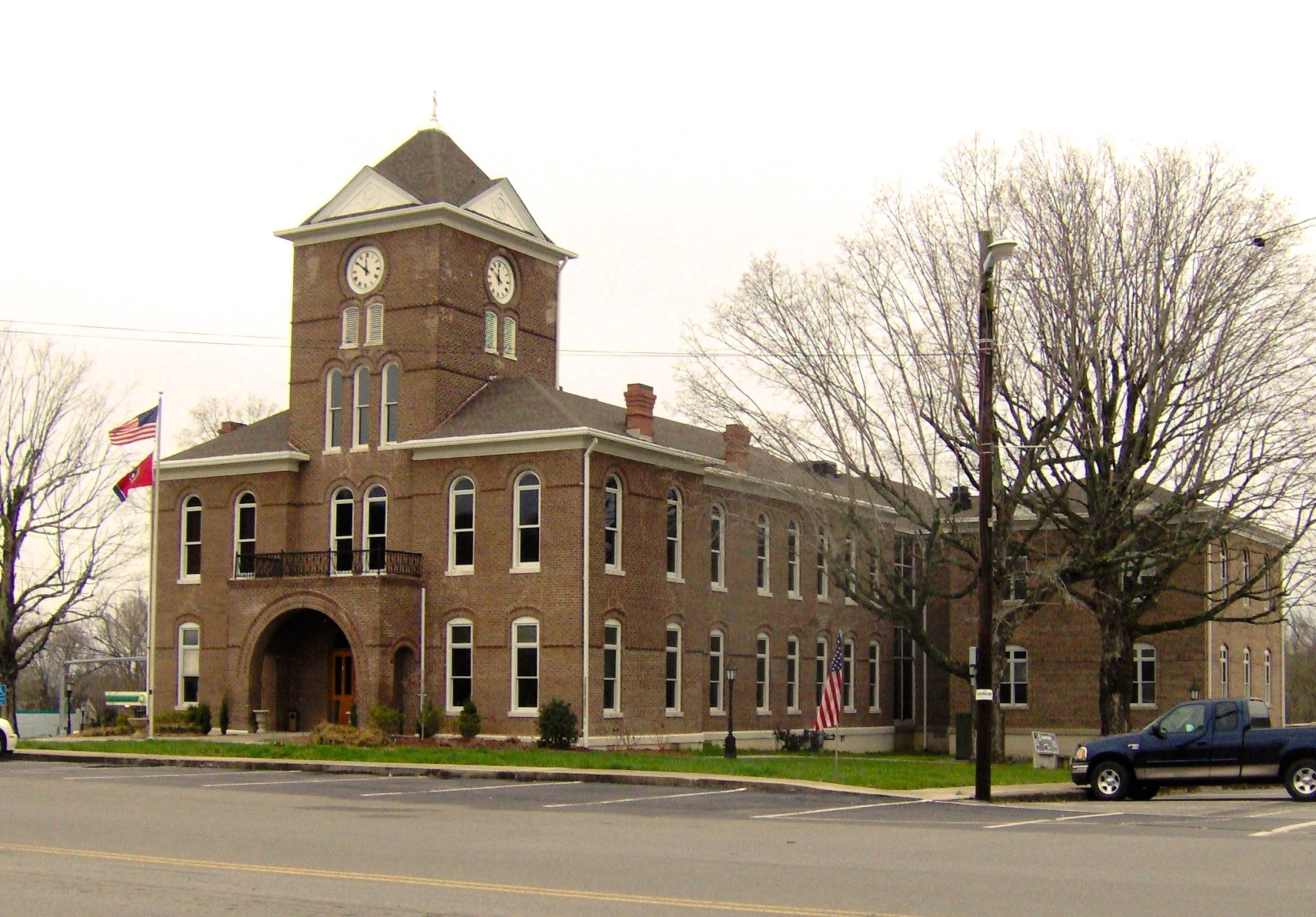 Meigs County Courthouse in Decatur, Tennessee, in the southeastern United States. This courthouse was built in 1905 and placed on the National Register of Historic Places in 1978. The bell from the original courthouse is now used by the First Baptist Church.